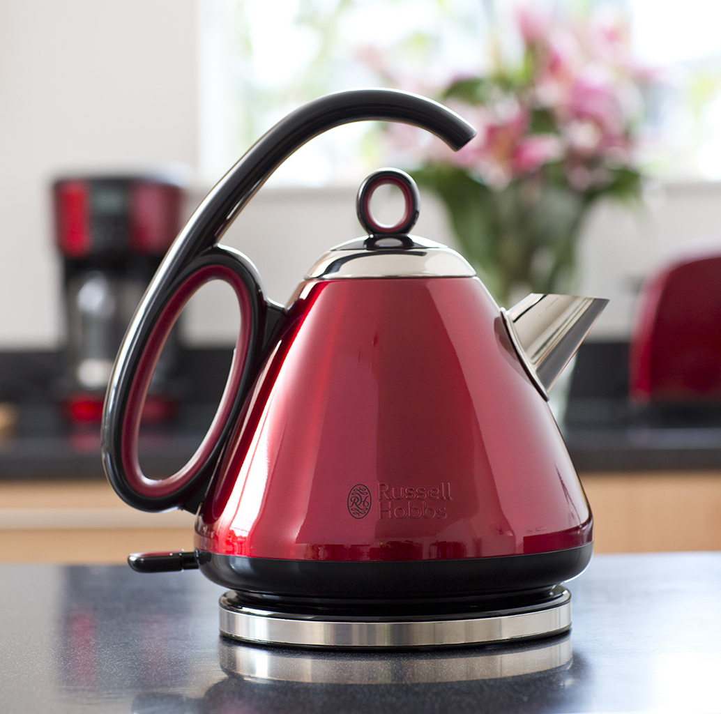 Product Legacy Kettle of company Russel Hobbs.